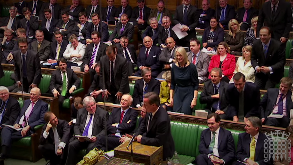 Questions to the Prime Minister (Rt Hon David Cameron MP), circa 2012.